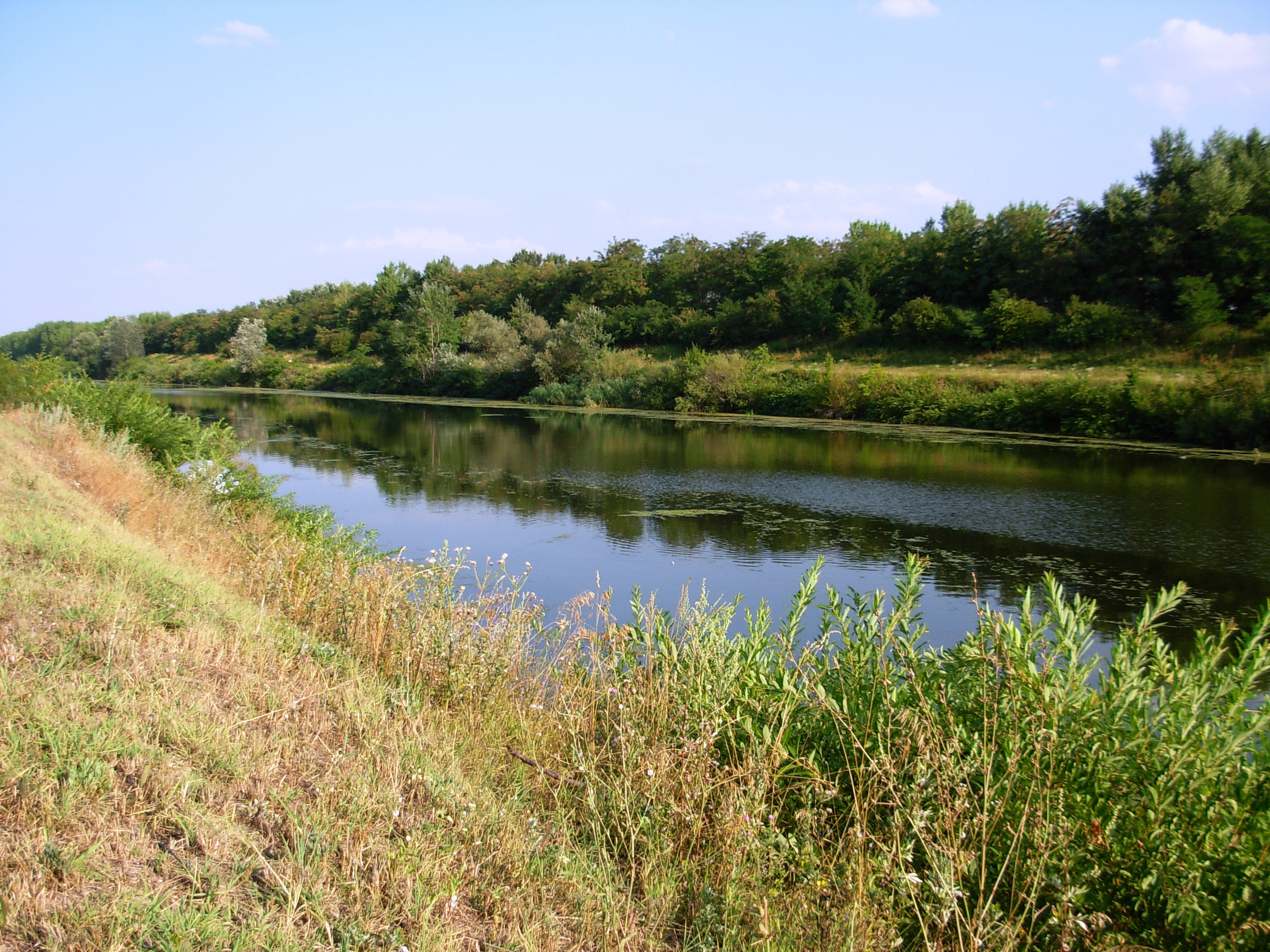 Danube–Tisa–Danube Canal in Novi Sad, Serbia.